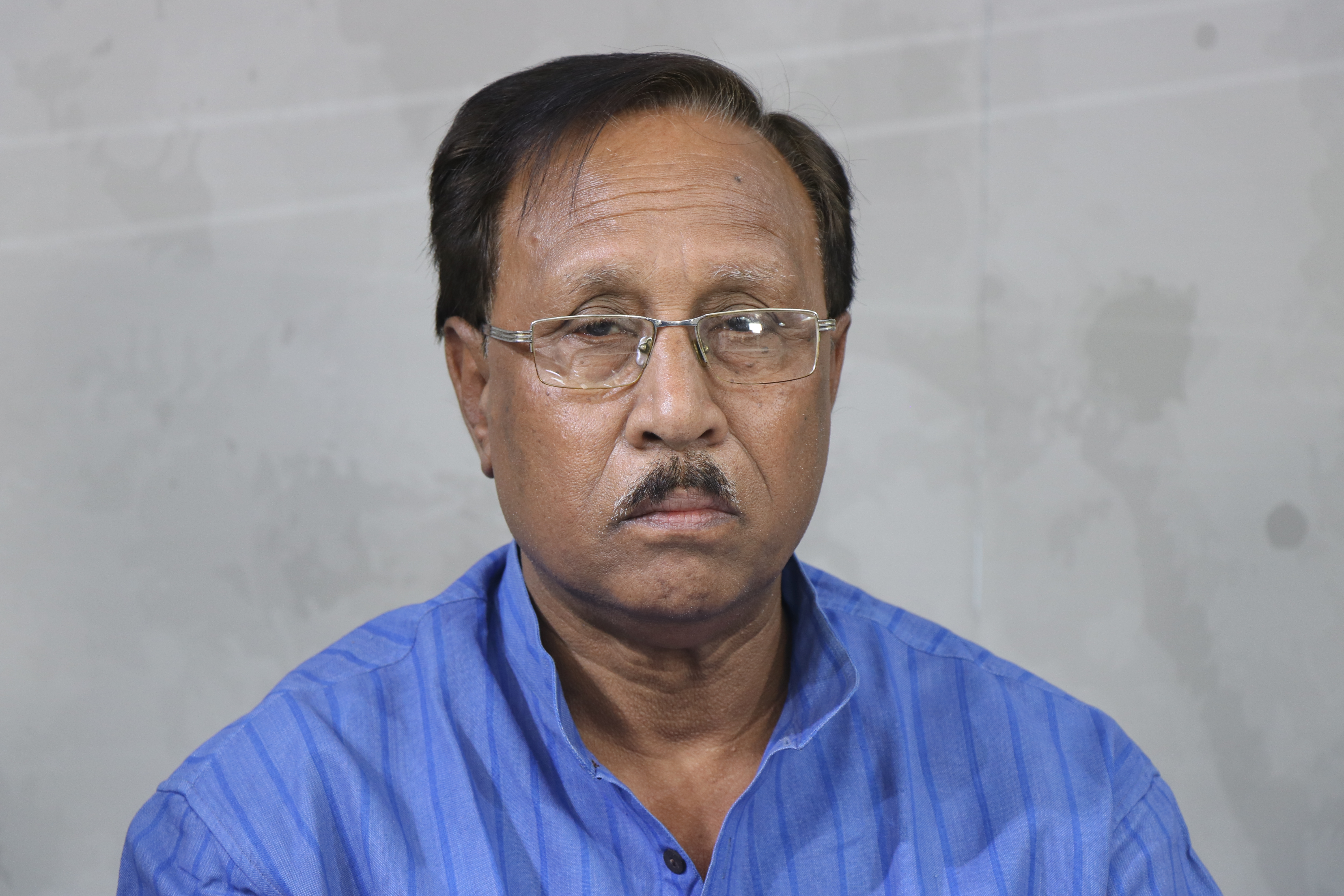 Harun Habib, Bangladeshi journalist and freedom fighter